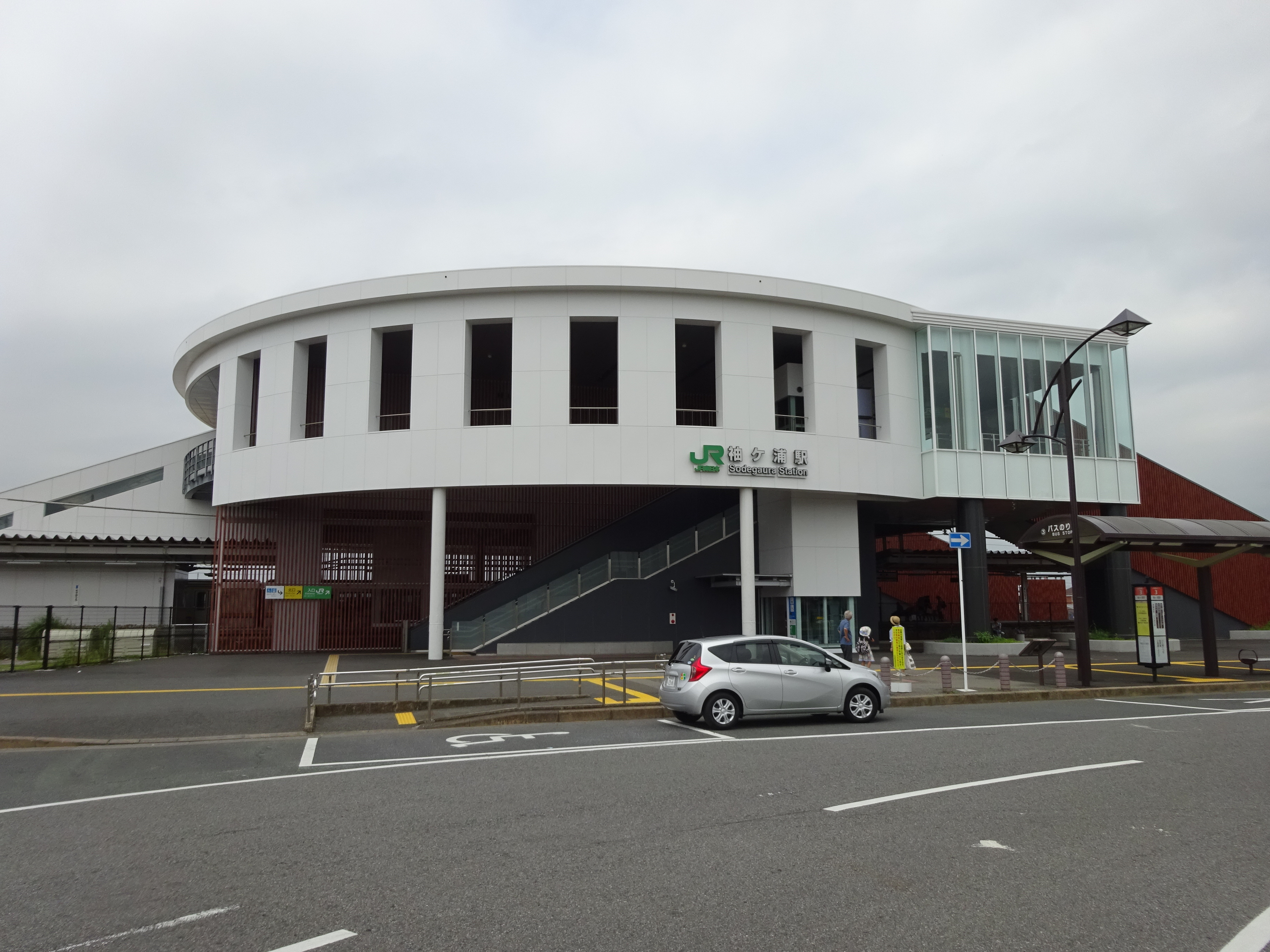 South Entrance of Sodegaura Station